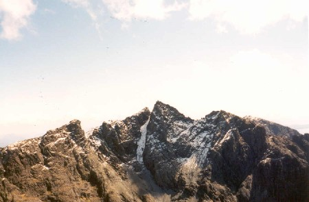 Sgurr Alasdair, the highest peak in the Cuillin of Skye.